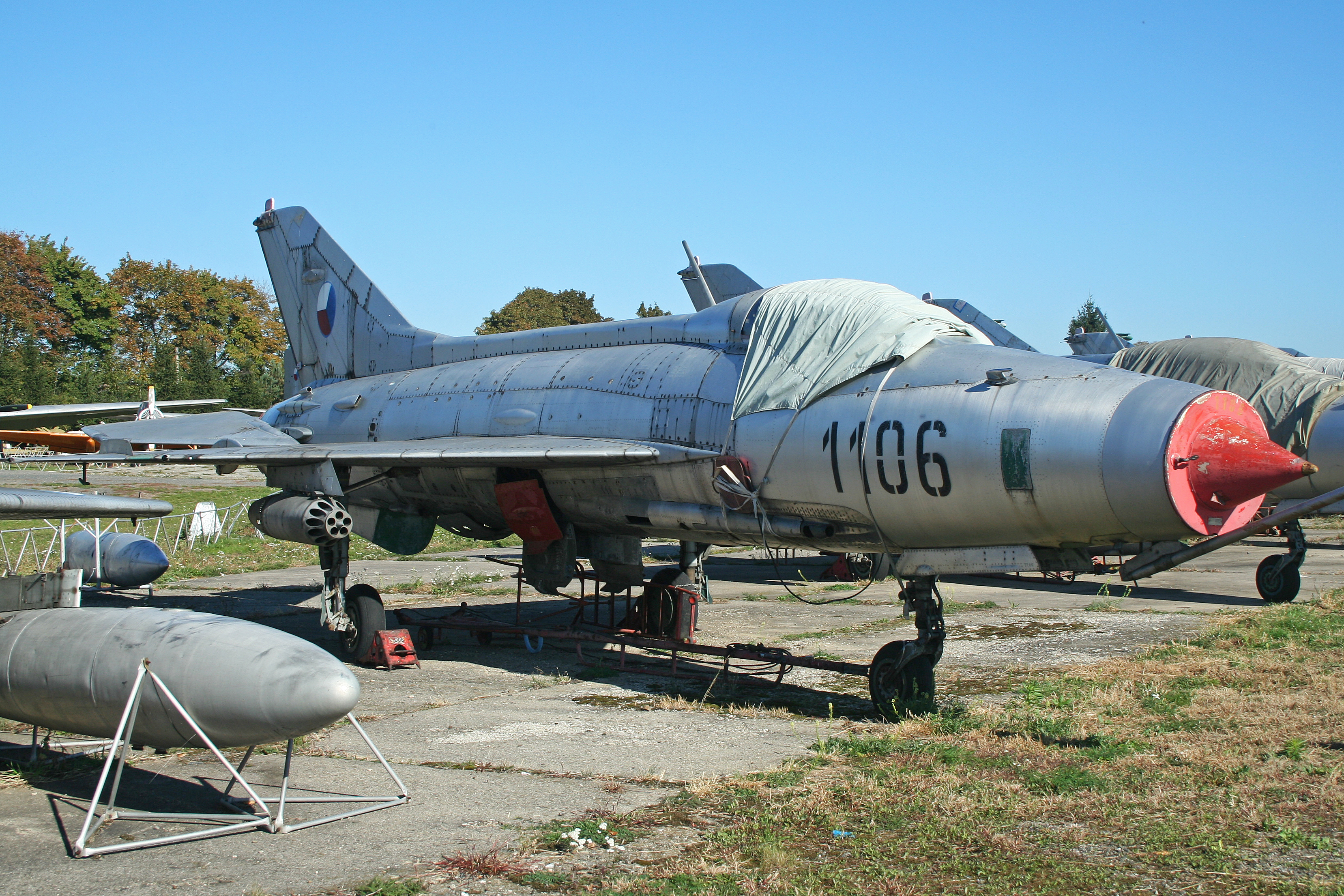 Many Czech AF MiG-21's were built under license by Aero as the S-106, however they were all known as MiG-21F-13, the original Soviet designation. msn 261106. On display at the Vyskov Air Museum, Czech Republic. 06-10-2012